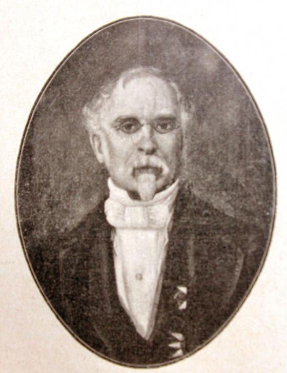 Reproduction of an oil portrait of António Aloíseo Jervis de Atouguia (1797-1861), a Portuguese politician of Madeiran origin.